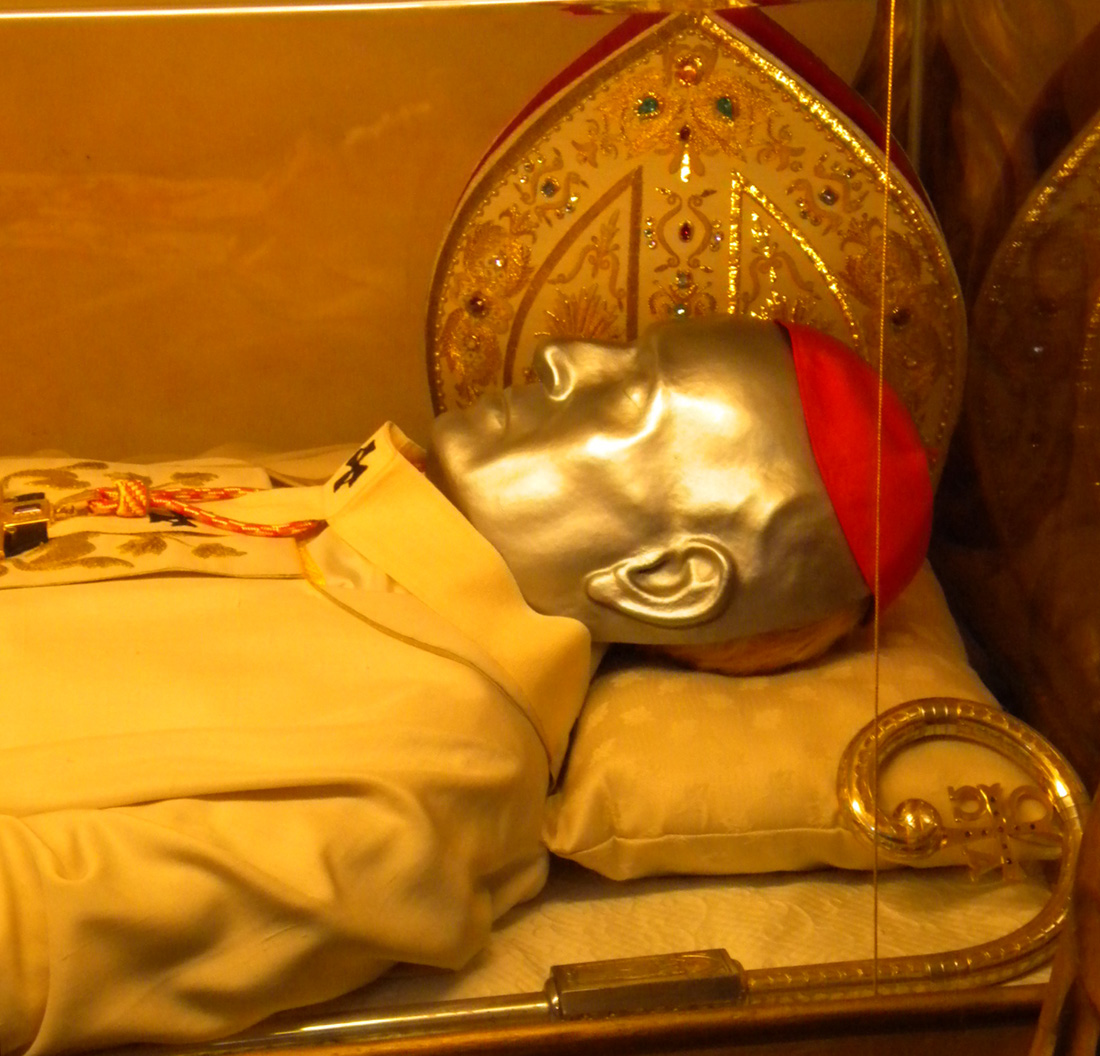 Cardinal Andrea Carlo Ferrari, Archbishop of Milan